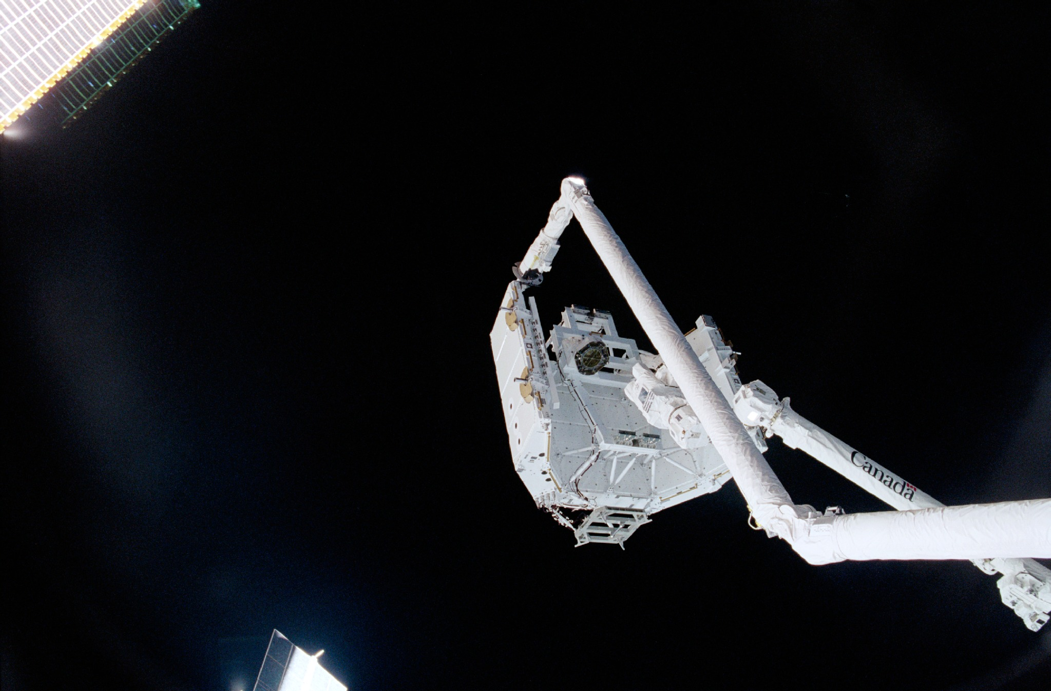 STS100-347-007 --- An unprecedented "handshake in space" occurred on April 28, 2001, as the Canadian-built space station robotic arm (right), also referred to as Canadarm2, transferred its launch cradle over to Endeavour's Canadian-built robotic arm.